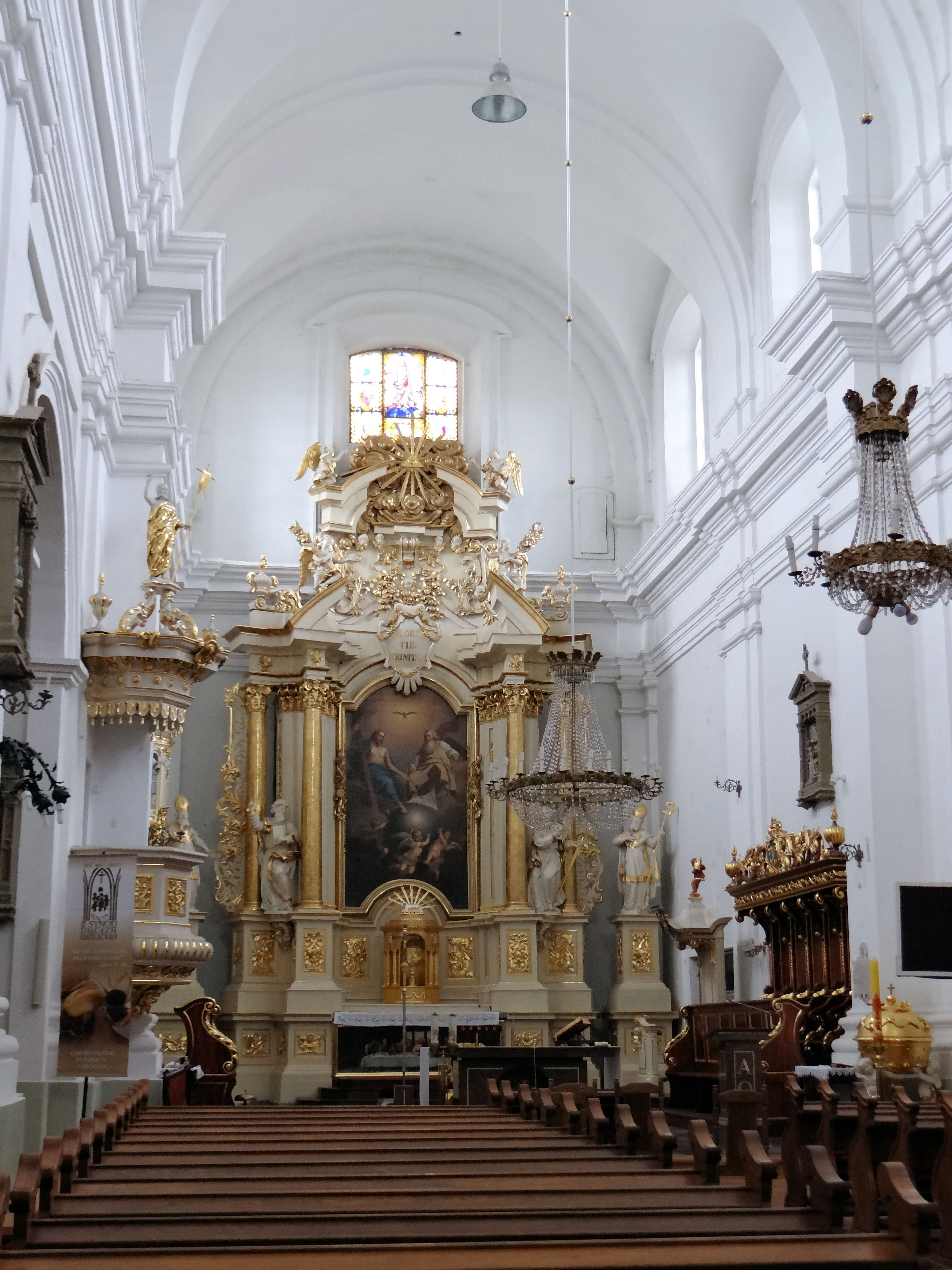 Interior of Holy Trinity church in Janów Podlaski - Main Altar